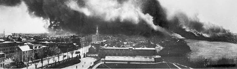 View of the Ottawa - Hull fire